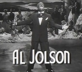 Cropped screenshot of Al Jolson from the trailer for the film Rhapsody in Blue.